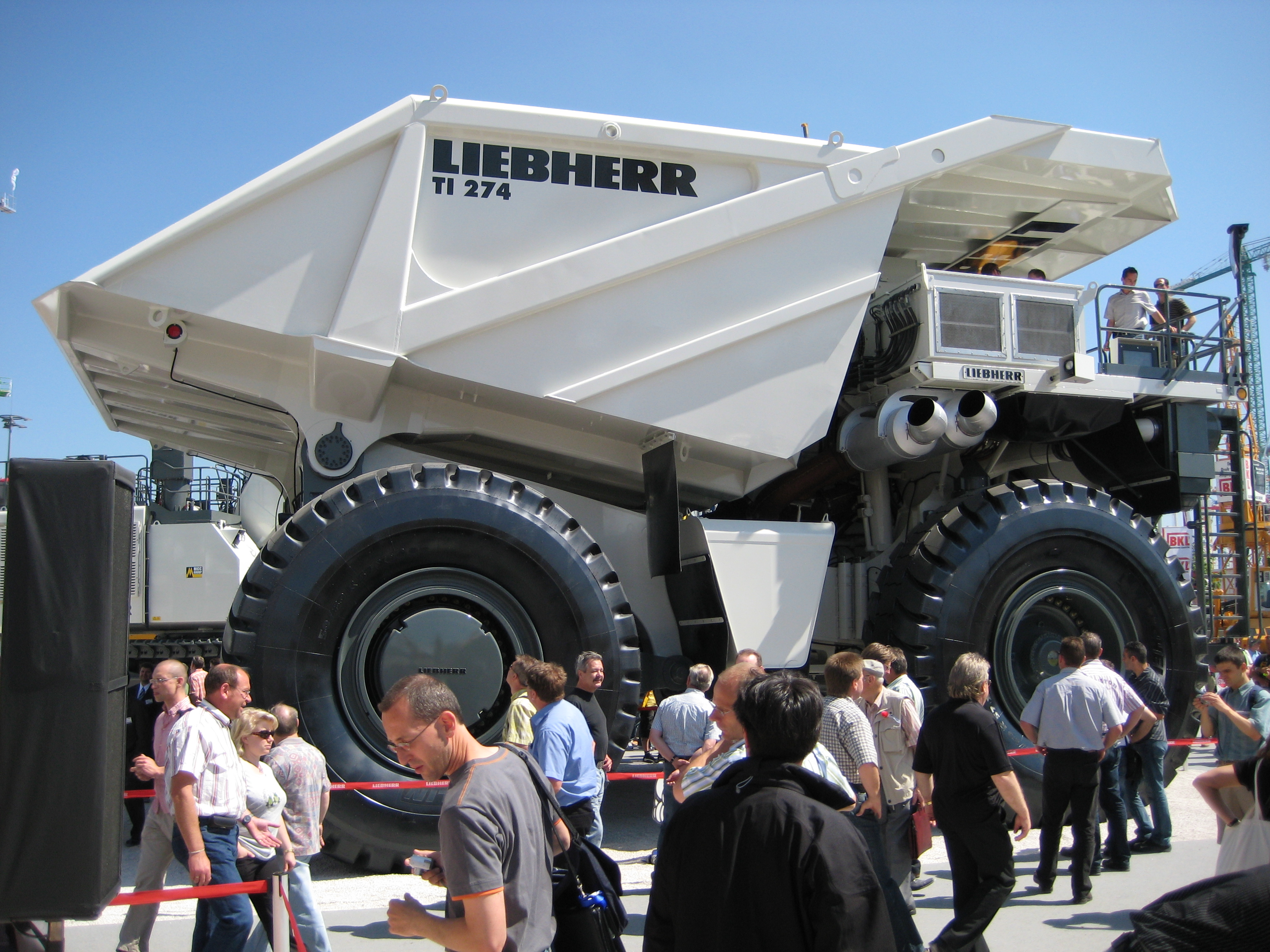 BAUMA 2007, Liebherr TI 274